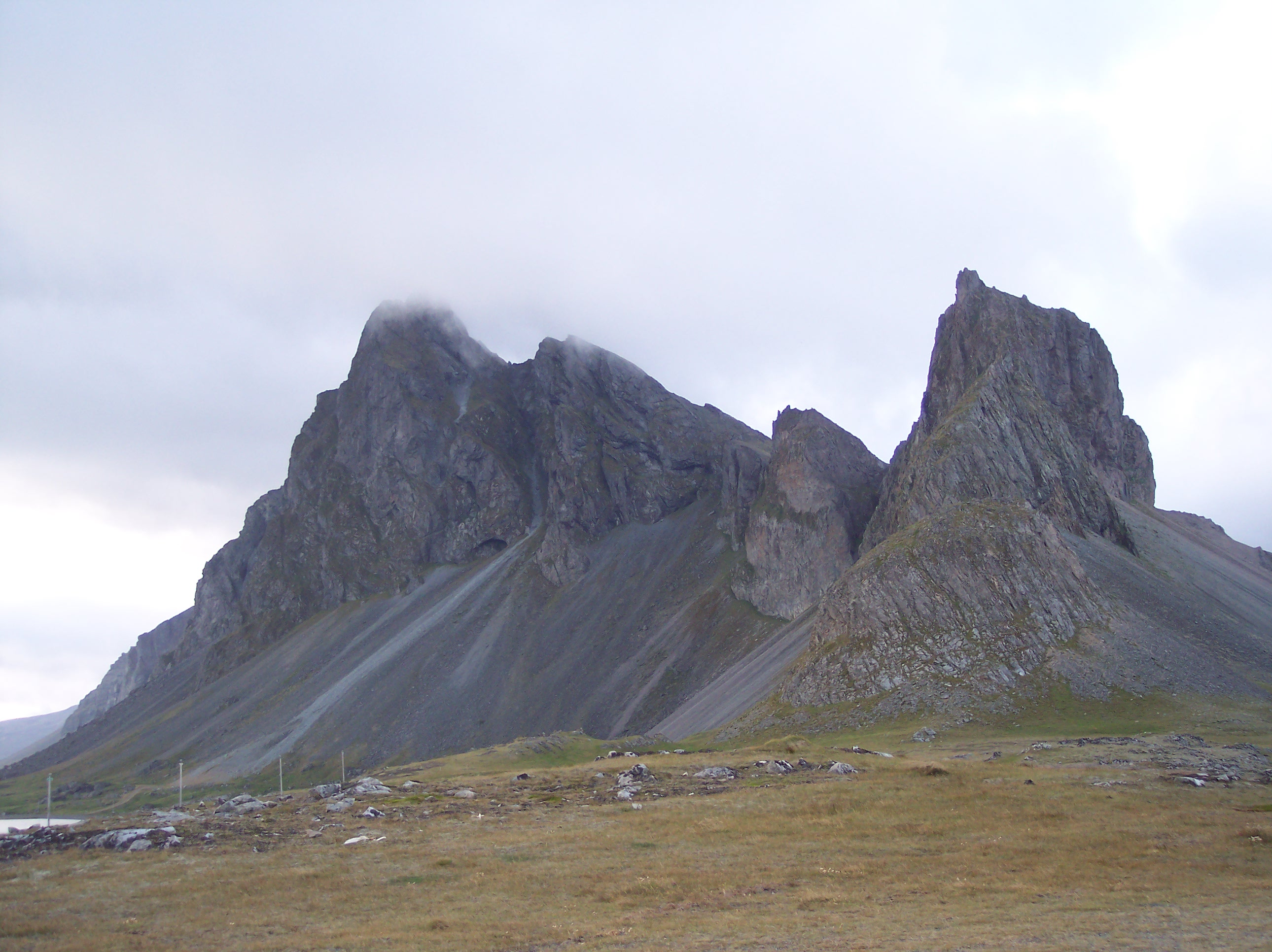 Eystrahorn í Lóni, Iceland.